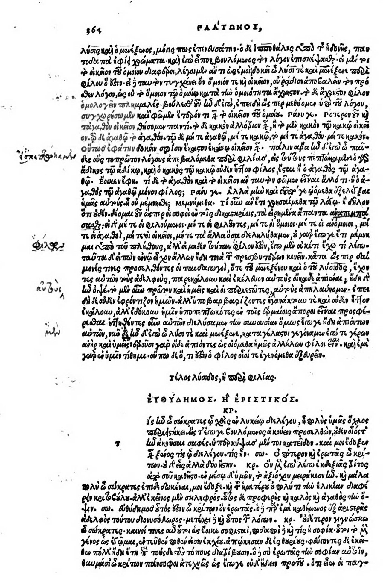 Euthydemos beginning. Editio princeps, Venice 1513.